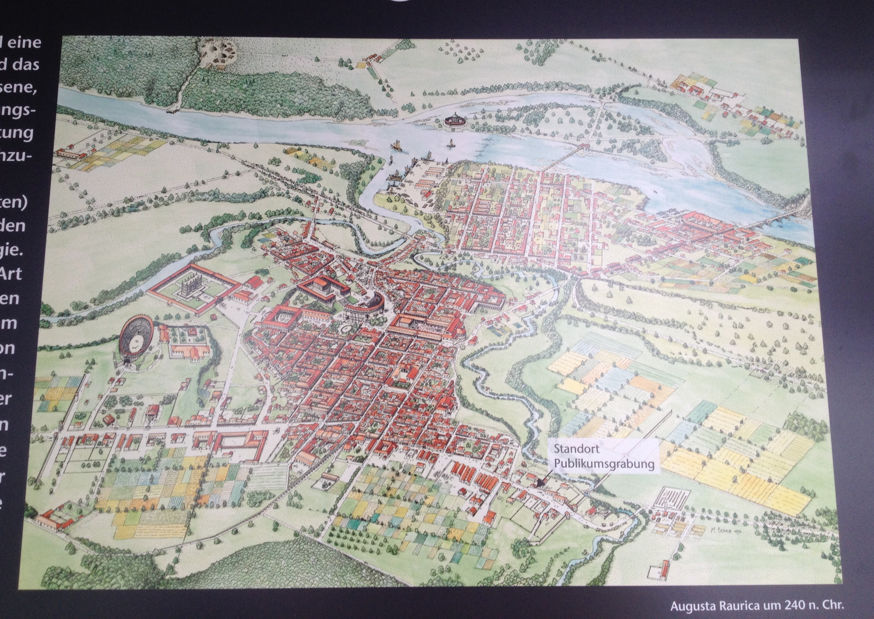 Map of Augusta Raurica 240 AD - Augusta Raurica - August 2013